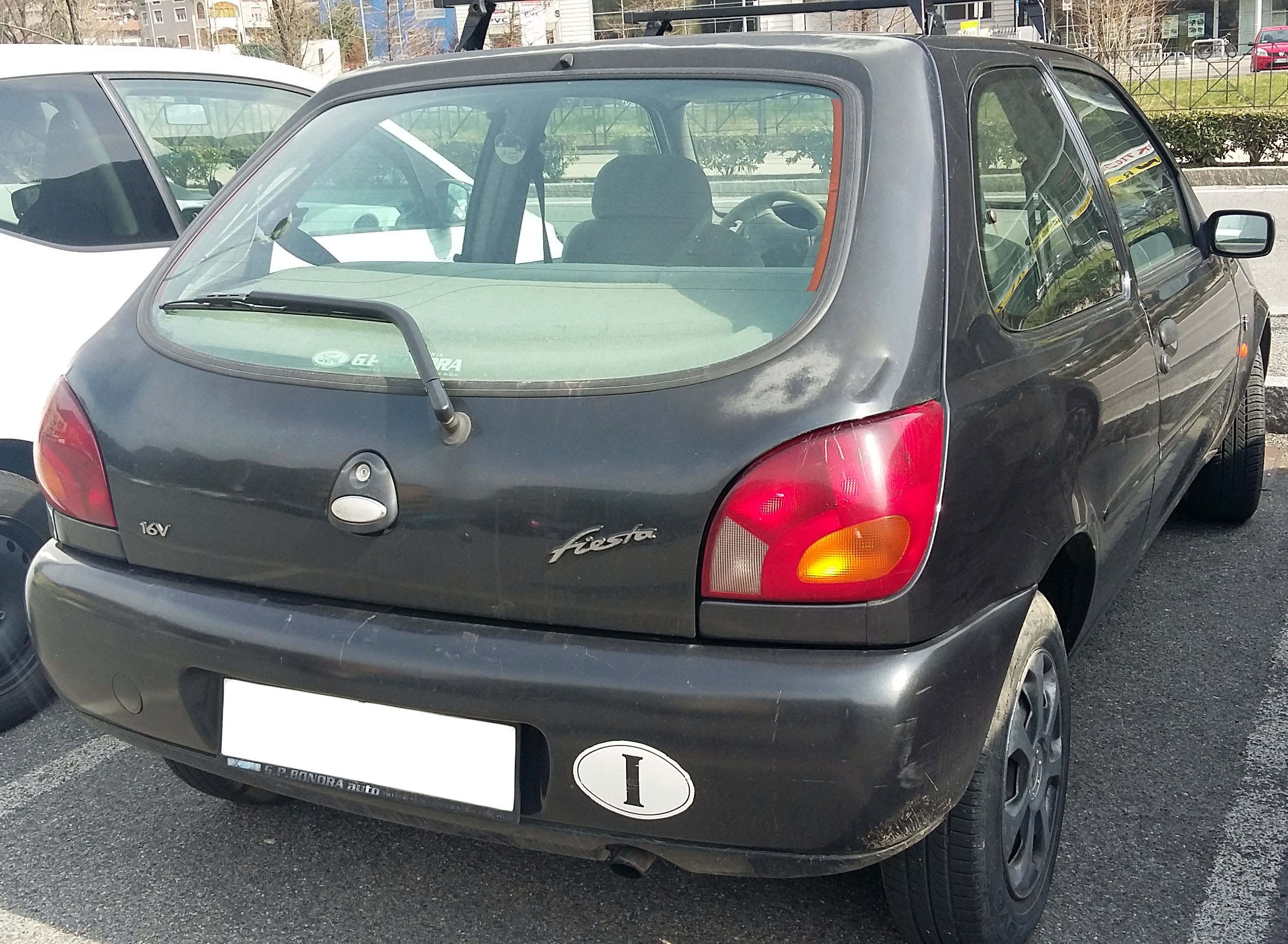 1995-2002 Ford Fiesta, rear